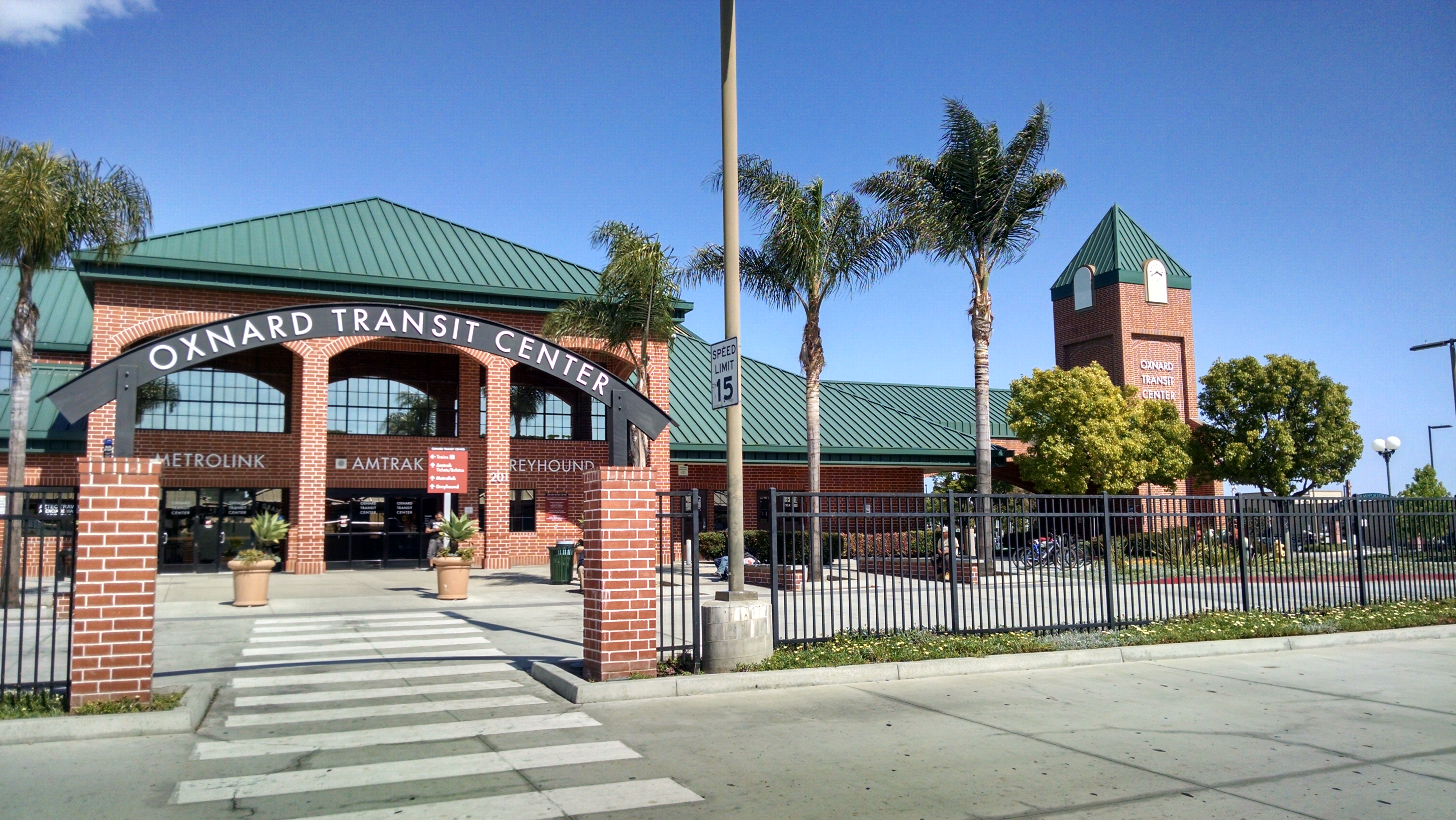 walkway from local bus island to train station and regional bus center